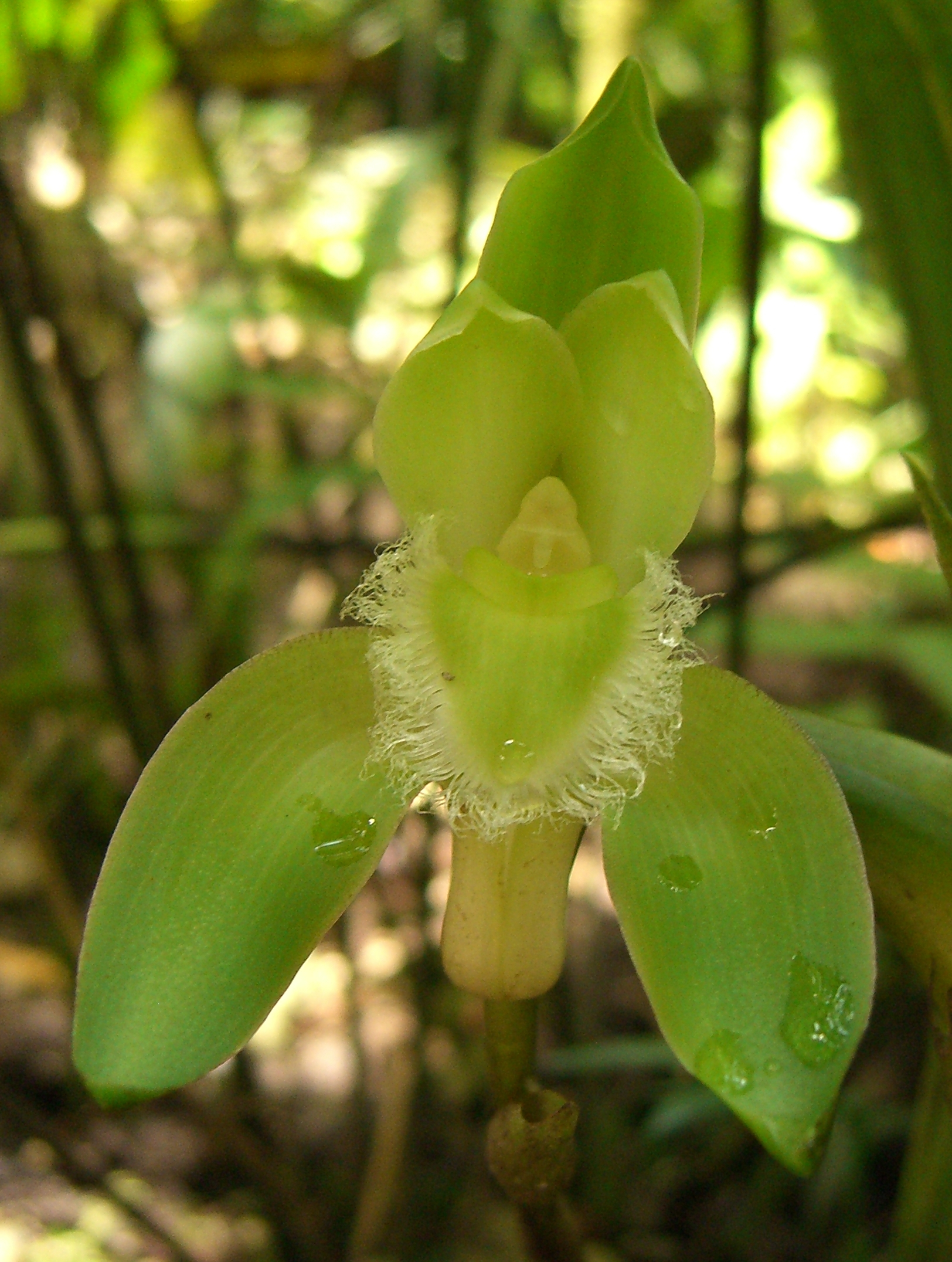 Please report references to .